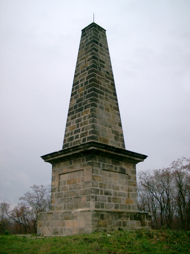 Battle of Kolín Memorial, Bedřichov